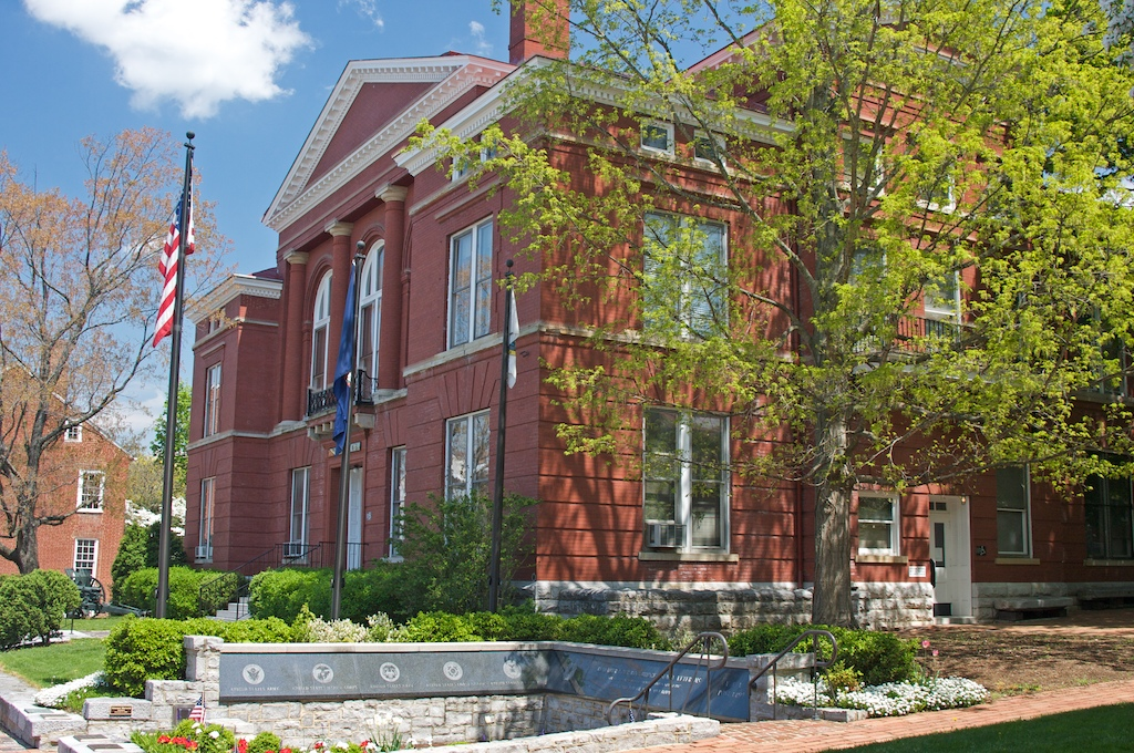 Rockbridge County Courthouse